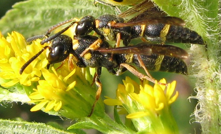 Potter wasps, Parancistrocerus perennis, mating. Delaware Water Gap, Montroe County, Pennsylvania, USA.